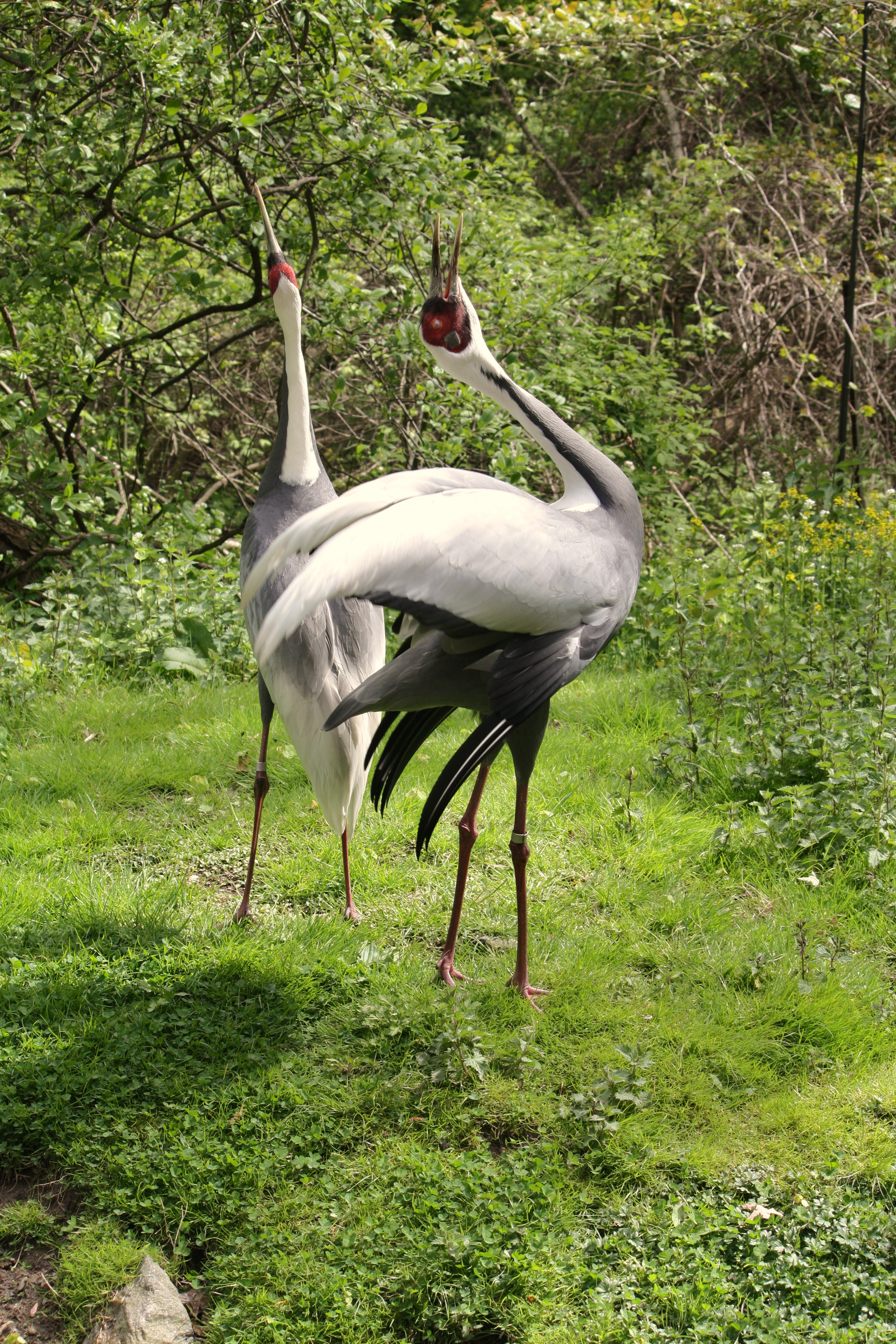 White-naped Cranes (Grus vipio); mated pair performing "unison call". Bronx Zoo, New York City.